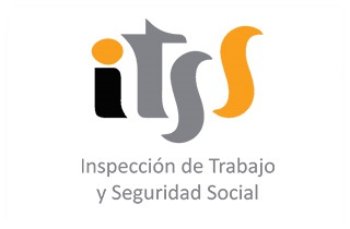 Inspección de Trabajo y Seguridad Social de España.